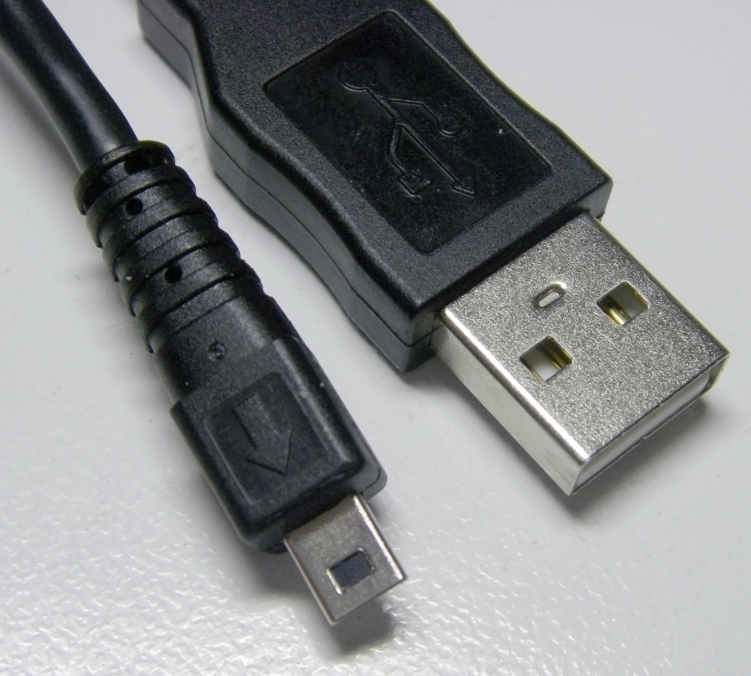 Lower left: USB Mini-B plug. Upper right: USB Standard-A plug.